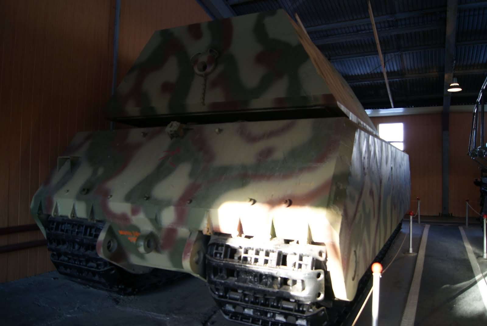 Panzerkampfwagen Maus in the Kubinka Tank Museum.